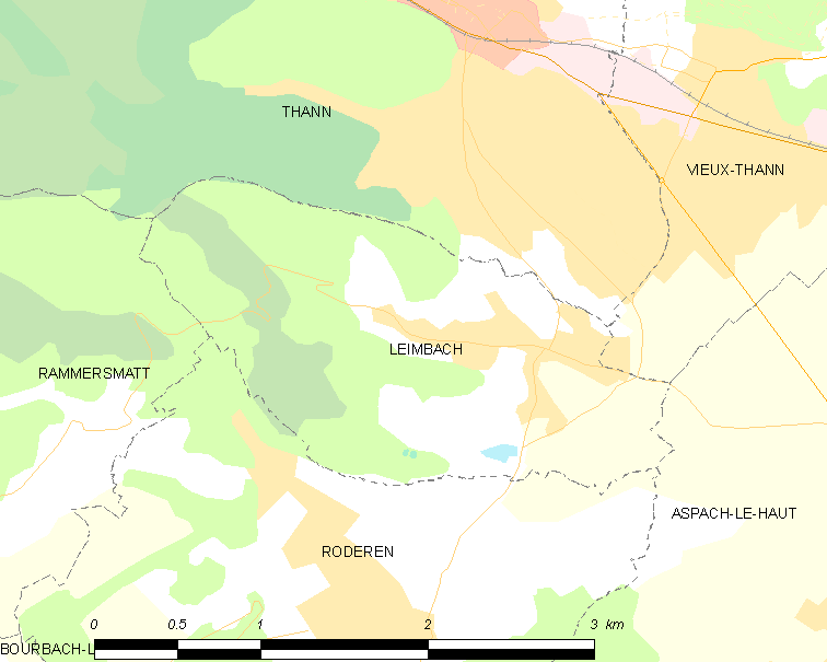 Map of French municipality